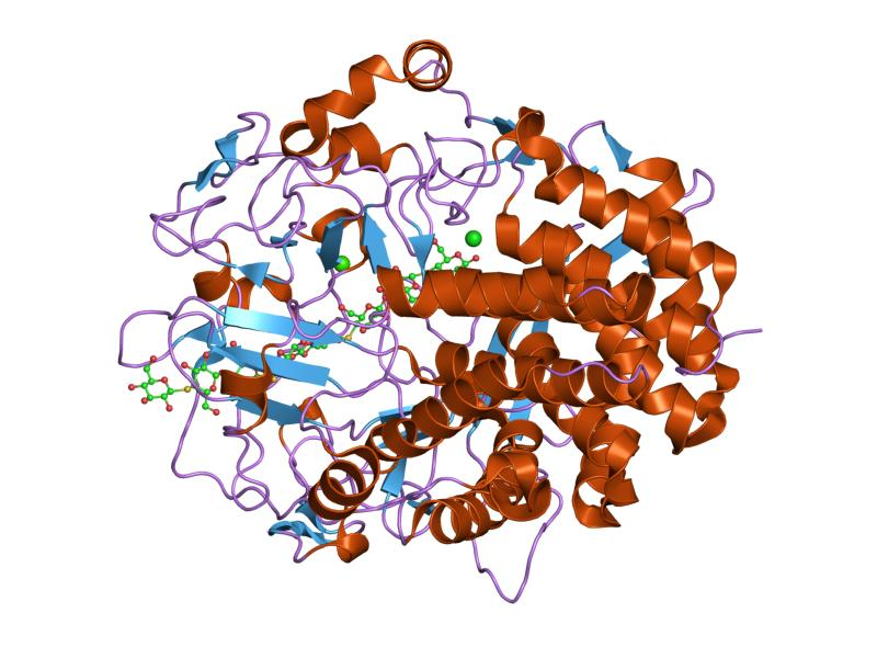 Cartoon representation of the molecular structure of protein registered with 1g9j code.